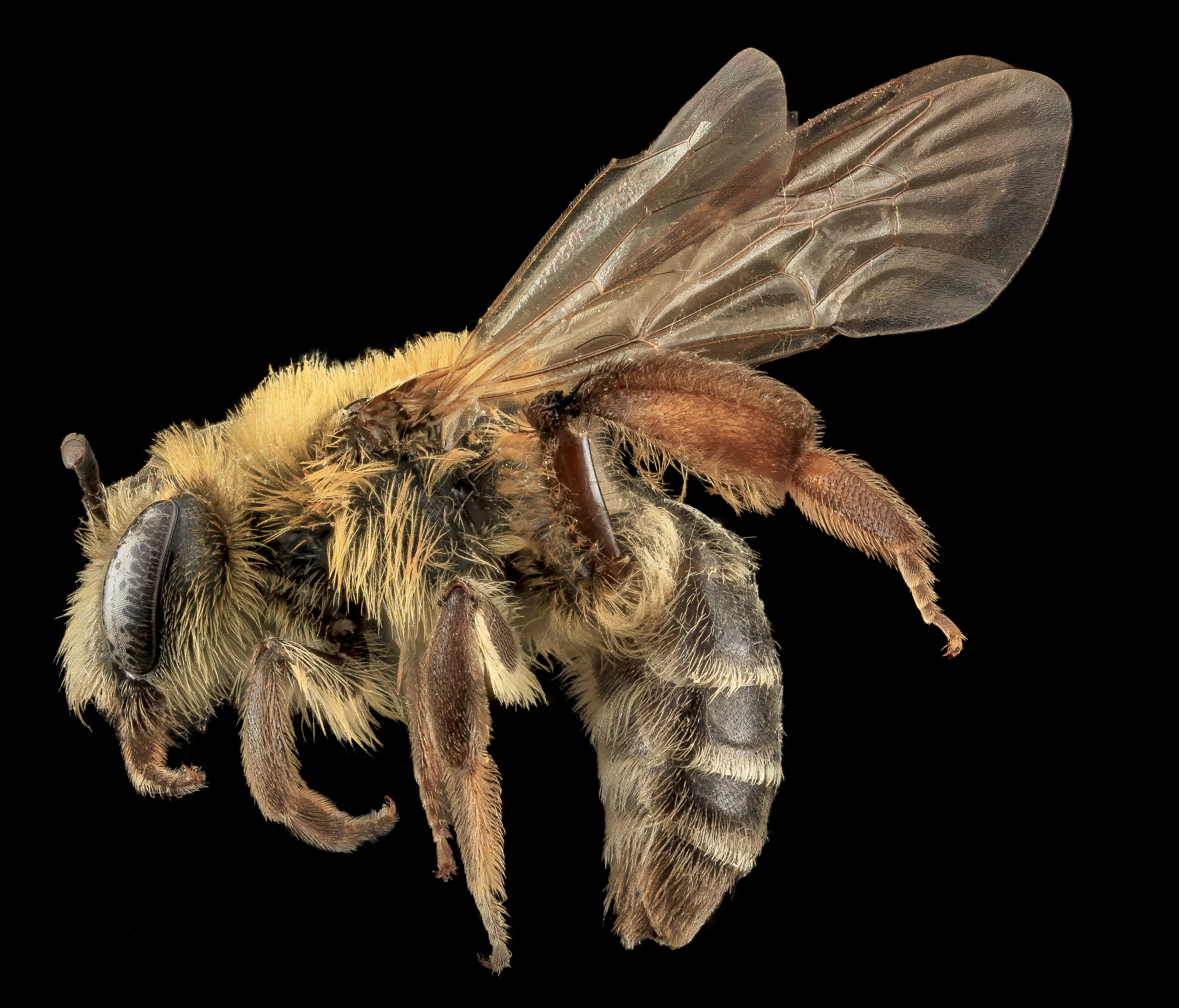 Andrena asteroides, a late season aster specialist (thus the name). This species along with a number of other Andrena specialize on this group of plants, the rest of the Genus Andrena are primarily spring flower specialists. Note the very dense pollen carrying hairs on the hind femur. Wayne Boo took this picture.